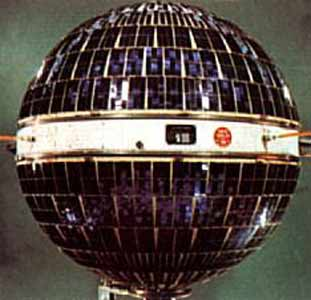 Picture of the Courier 1A communications satellite.